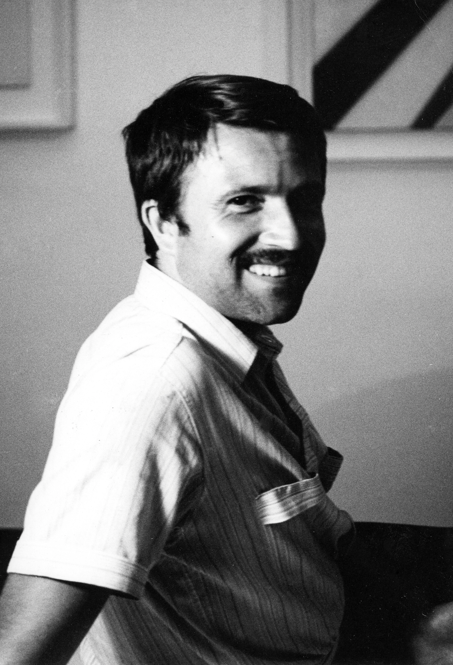 Gianfranco Zappettini, 1960s